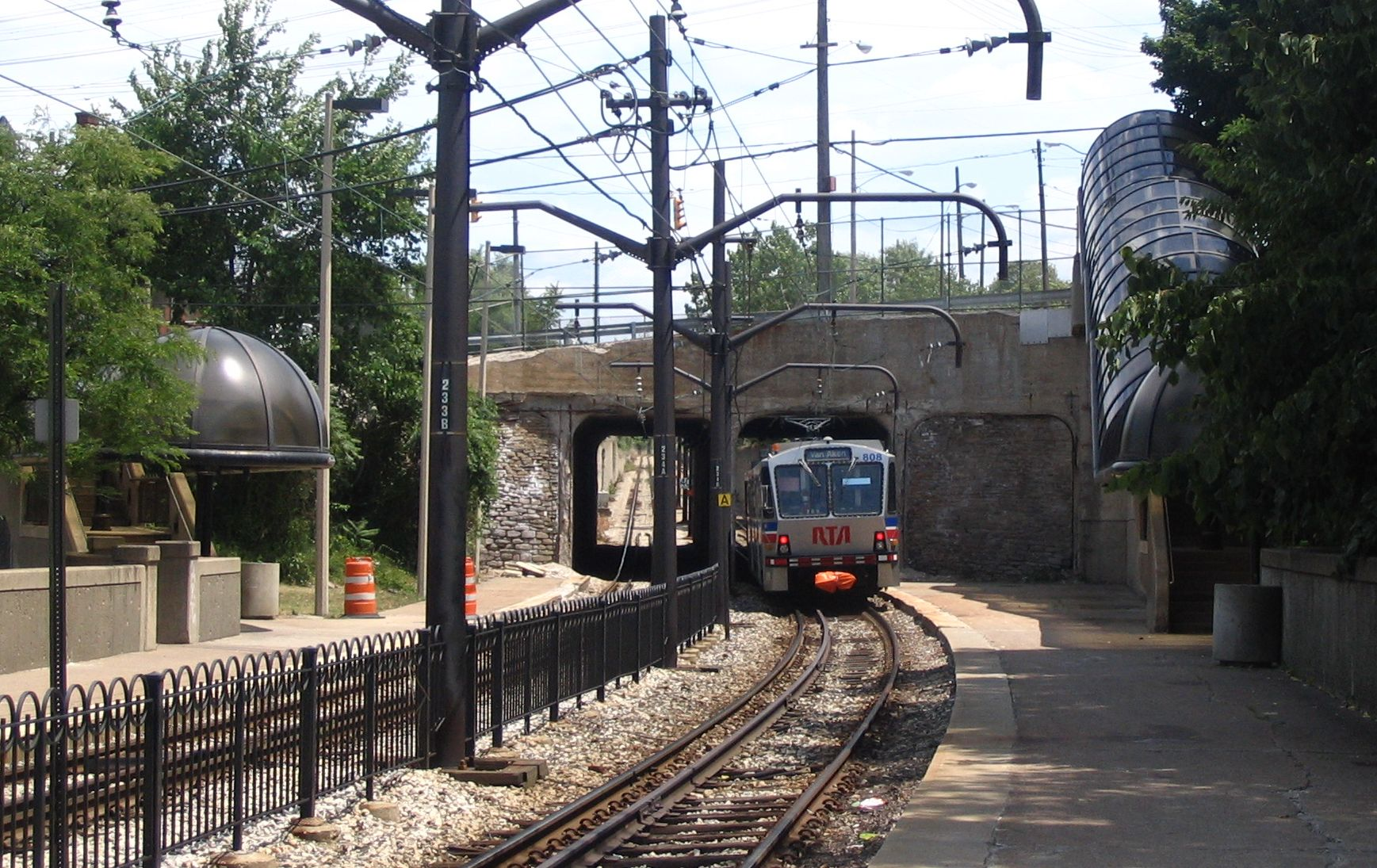 Woodhill station on the Blue and Green Lines of Cleveland RTA Rapid Transit